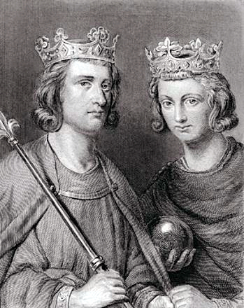 Brothers Louis III and Carloman